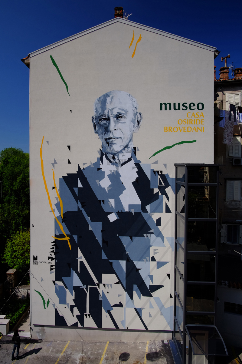 Osiride Brovedani as painted by artist Macross